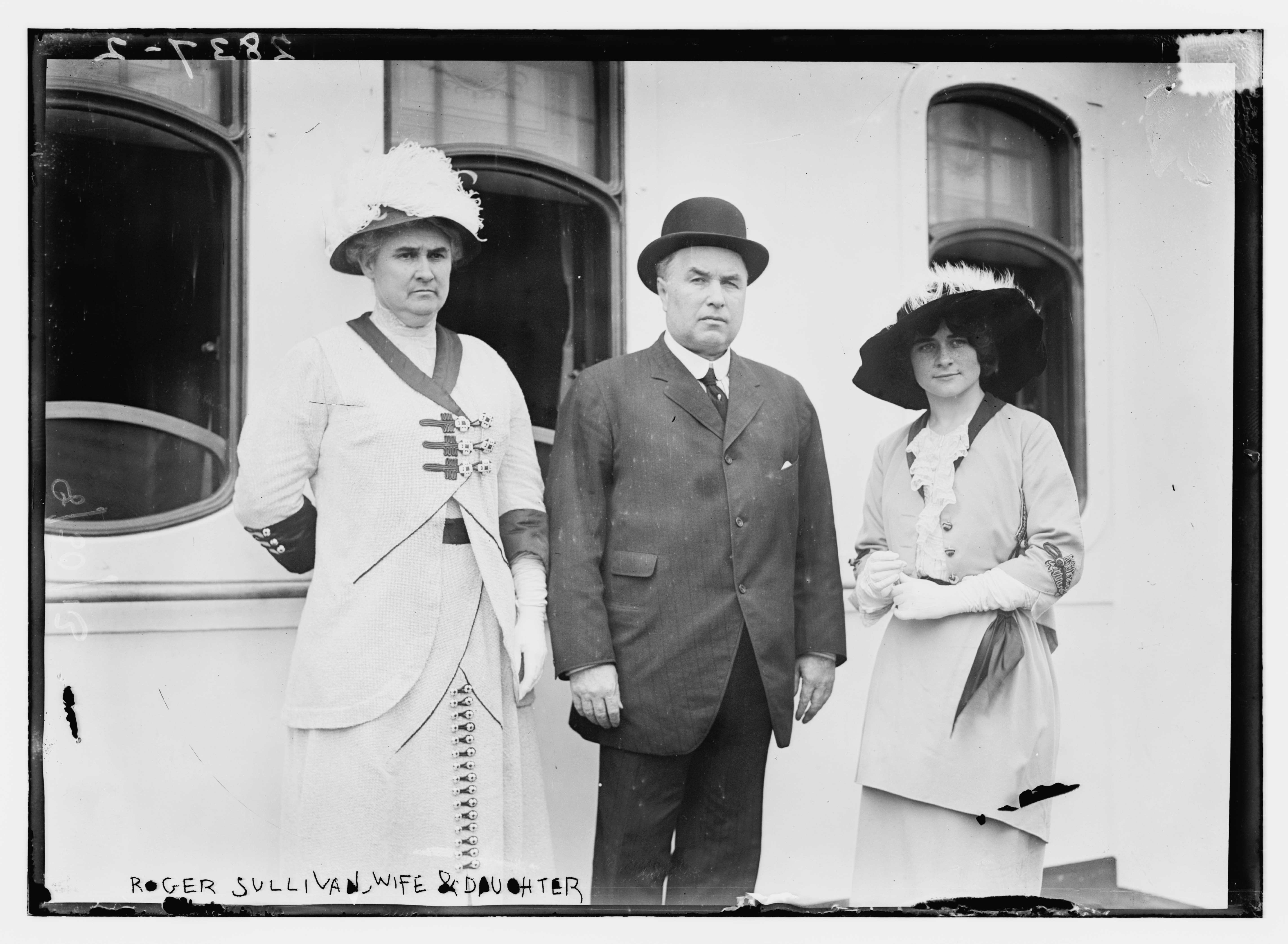 Bain News Service,, publisher. Roger Sullivan, wife and daughter circa 1913 [between ca. 1910 and ca. 1915] 1 negative : glass ; 5 x 7 in. or smaller. Notes: Title from unverified data provided by the Bain News Service on the negatives or caption cards. Forms part of: George Grantham Bain Collection (Library of Congress). Format: Glass negatives. Repository: Library of Congress, Prints and Photographs Division, Washington, D.C. 20540 USA, General information about the Bain Collection is available at Persistent URL: Call Number: LC-B2- 2837-2